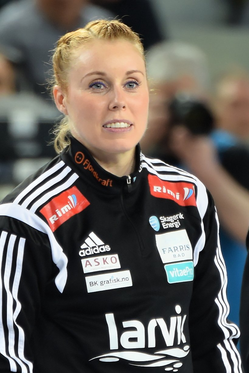 Karoline Dyhre Breivang - EHF Champion's League, Metz Handball / Larvik HK - 15 november 2014.